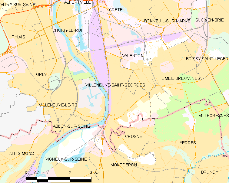 Map of French municipality Villeneuve-Saint-Georges